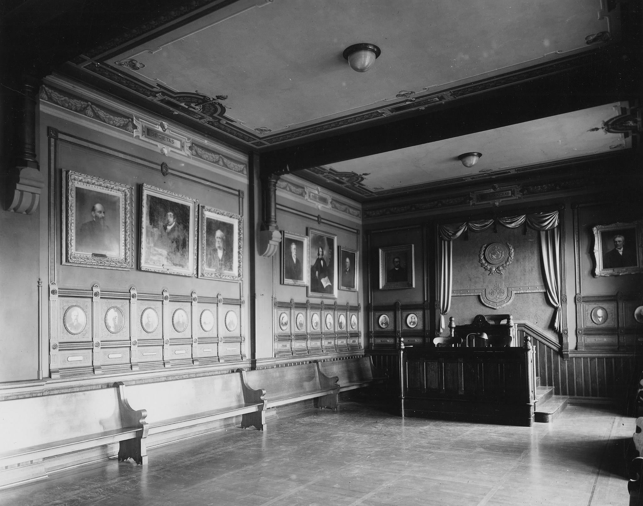 A picture of the Georgetown University's Philodemic Society's debating hall, located on the second floor of Healy Hall. Courtesy of Georgetown University Archives.